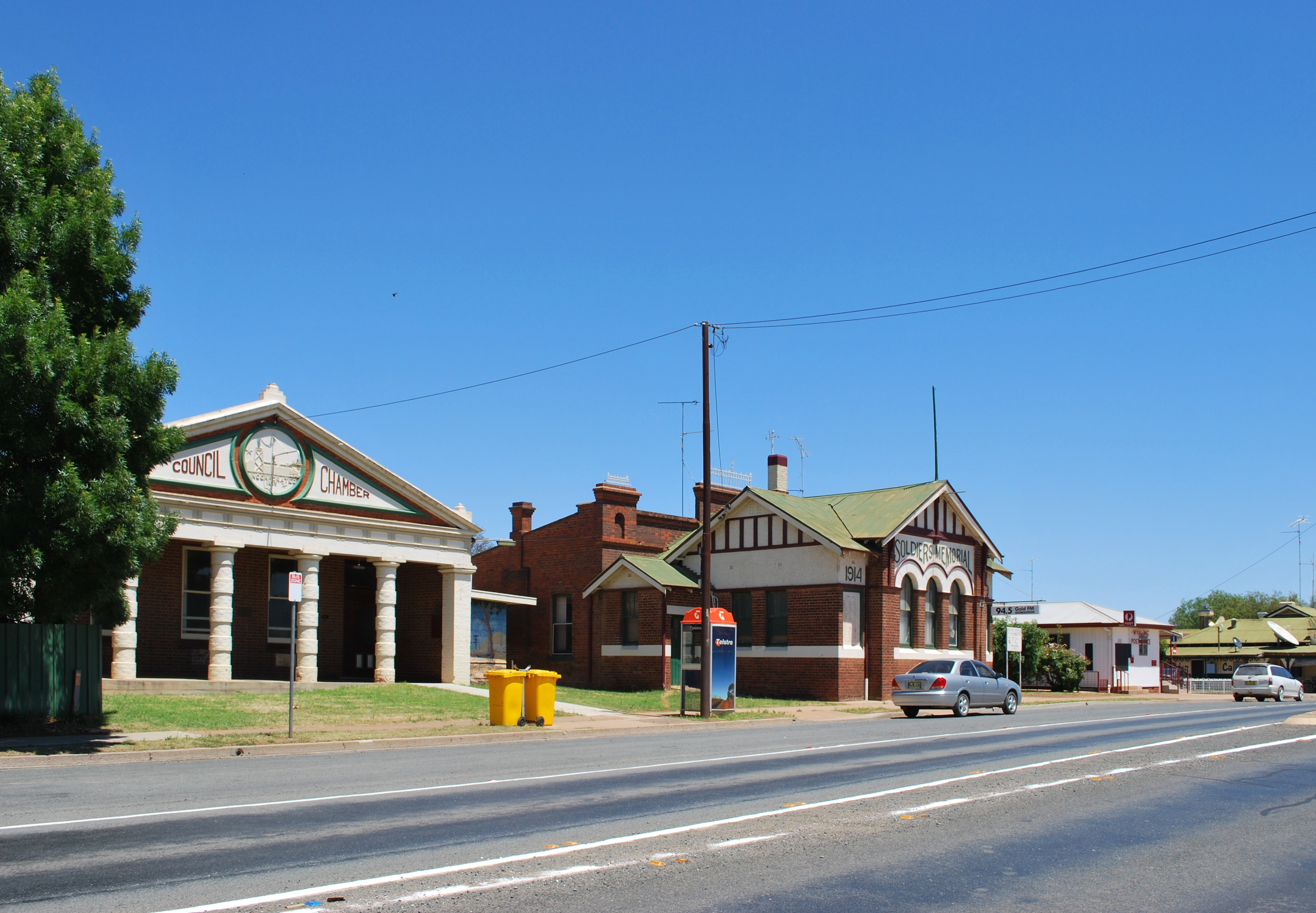 Neeld St (Newell Highway and Mid-Western Highway), the main street of Wyalong, New South Wales